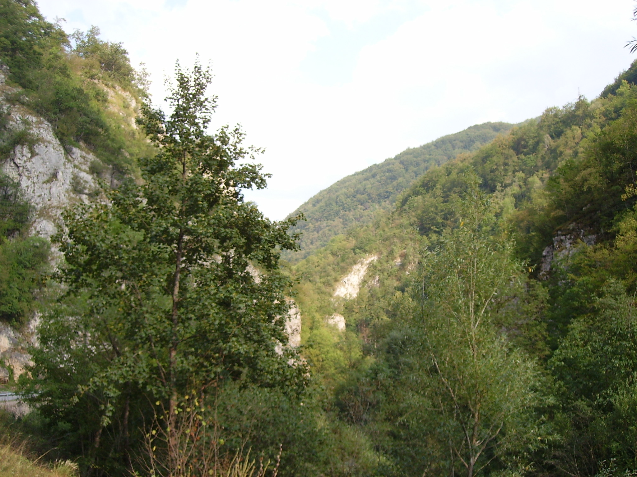 Bosnia, River Prača gorge near Podgrab.